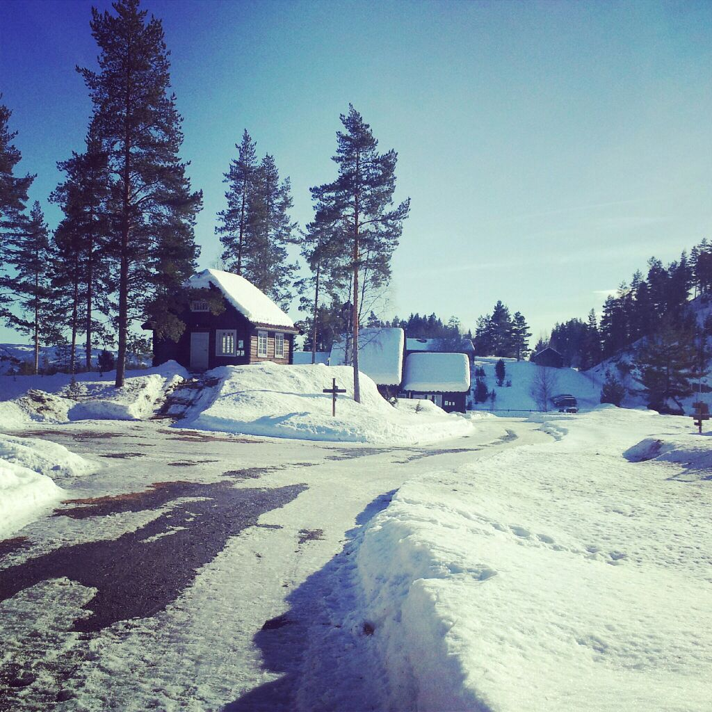 buildings at gruvetraakka